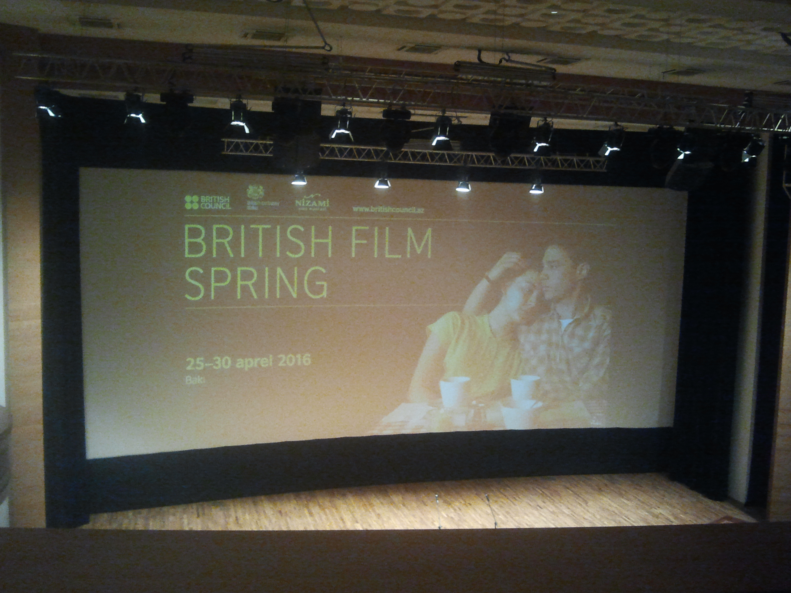 The opening of British Film Spring with organization British Council Baku in Nizami Cinema Center (25 April 2016)